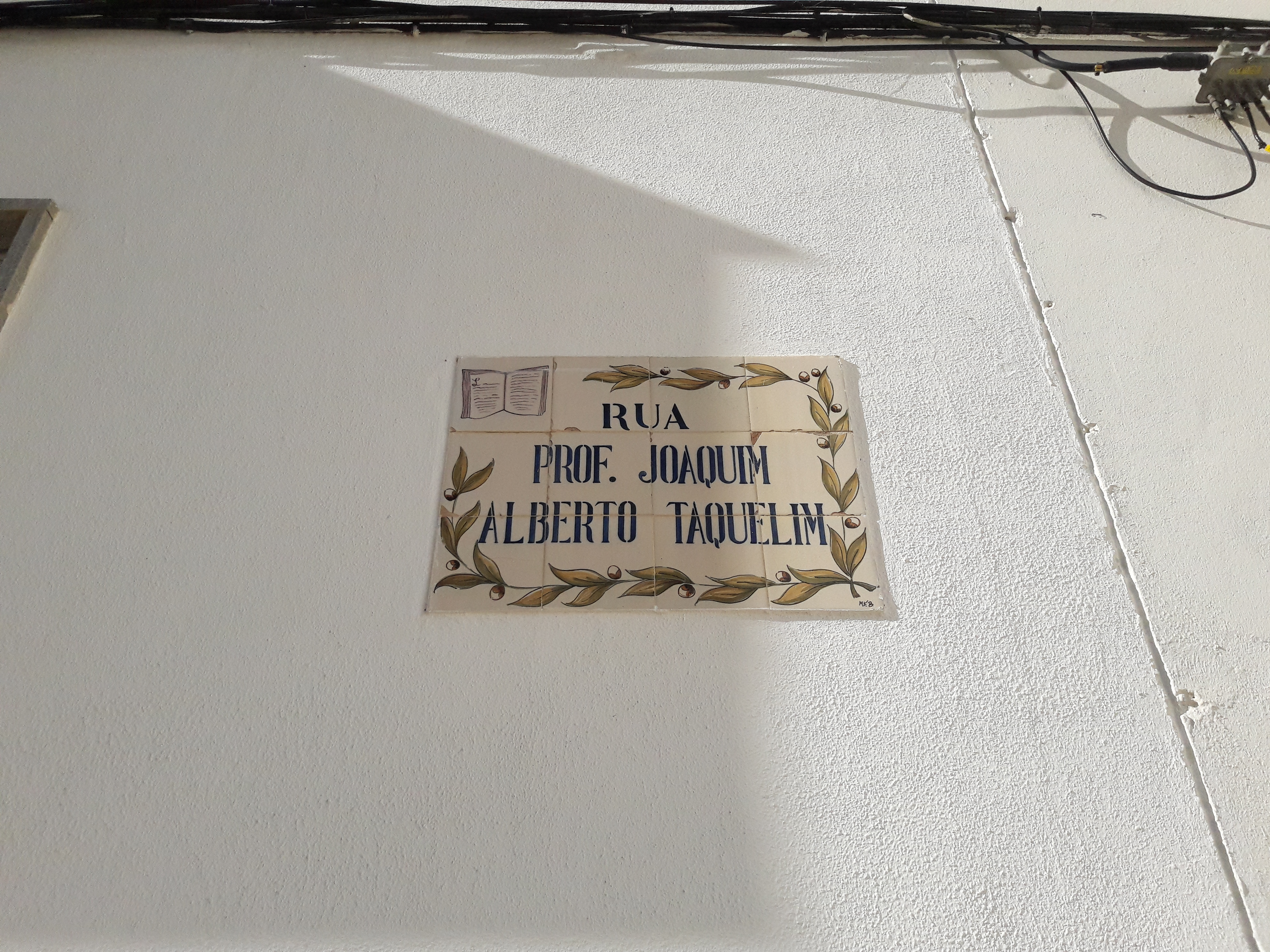 Street sign of Rua Prof. Joaquim Alberto Taquelim, in the city of Lagos, in southern Portugal.